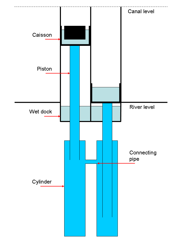 December 2006: Created by user:Gandalf61 with Powerpoint, exported as PNG file. Diagram of Anderton Boat Lift in original hydraulic configuration (not to scale)